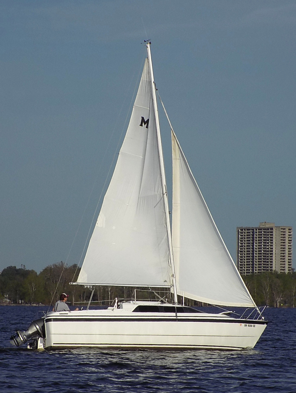 A MacGregor 26X sailboat.